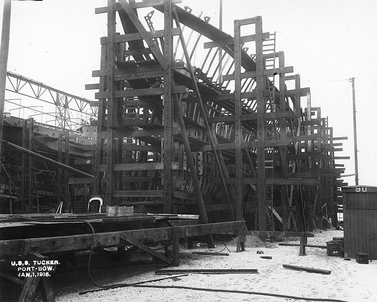 USS Tucker (Destroyer # 57) Under construction at the Fore River Shipbuilding Company shipyard, Quincy, Massachusetts, on 1 January 1915. Visible in the left background is USS Cushing (Destroyer # 55), which was launched on 16 January 1915. Official U.S. Navy Photograph, from the collections of the Naval Historical Center.